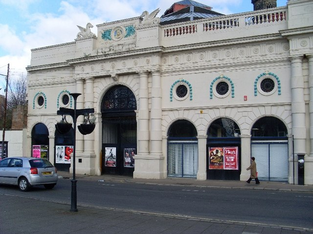 The Briggait, Clyde Street, Glasgow Old fish market, named for the road that runs behind it - Bridgegate.